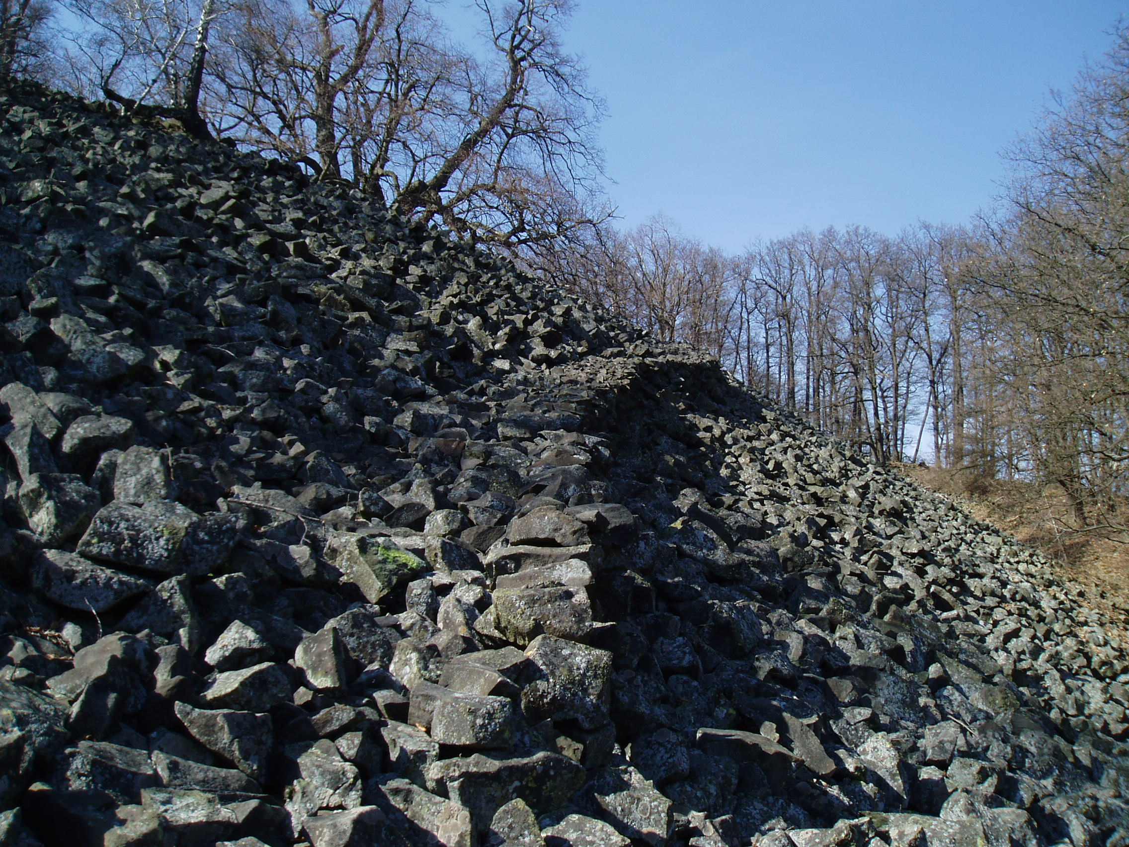 Hill of Plešivec (509 m) near Kamýk, Litoměřice District, Czech Repuvlic